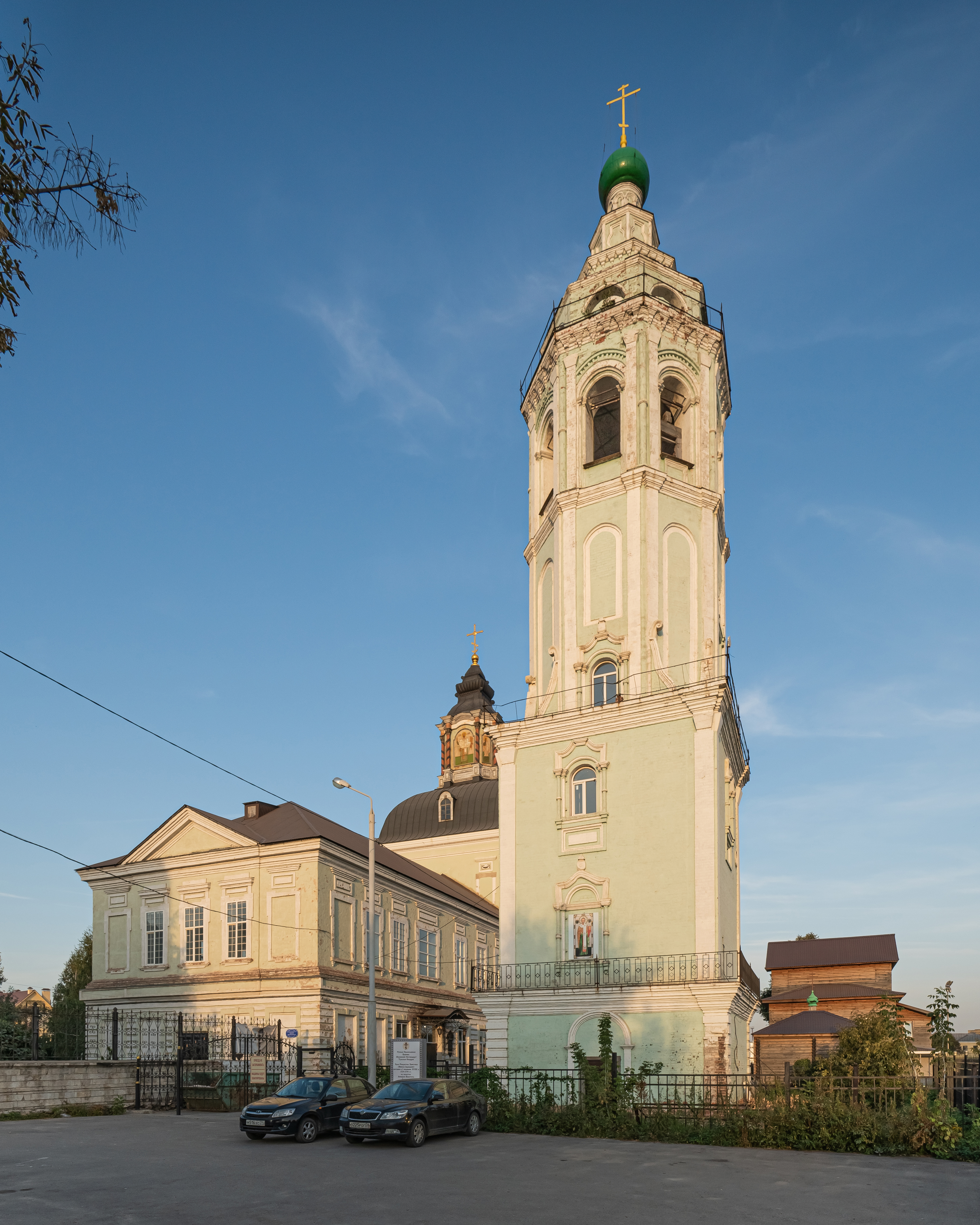 St. Nicholas Zaretsky Church with bell tower in Tula, Russia